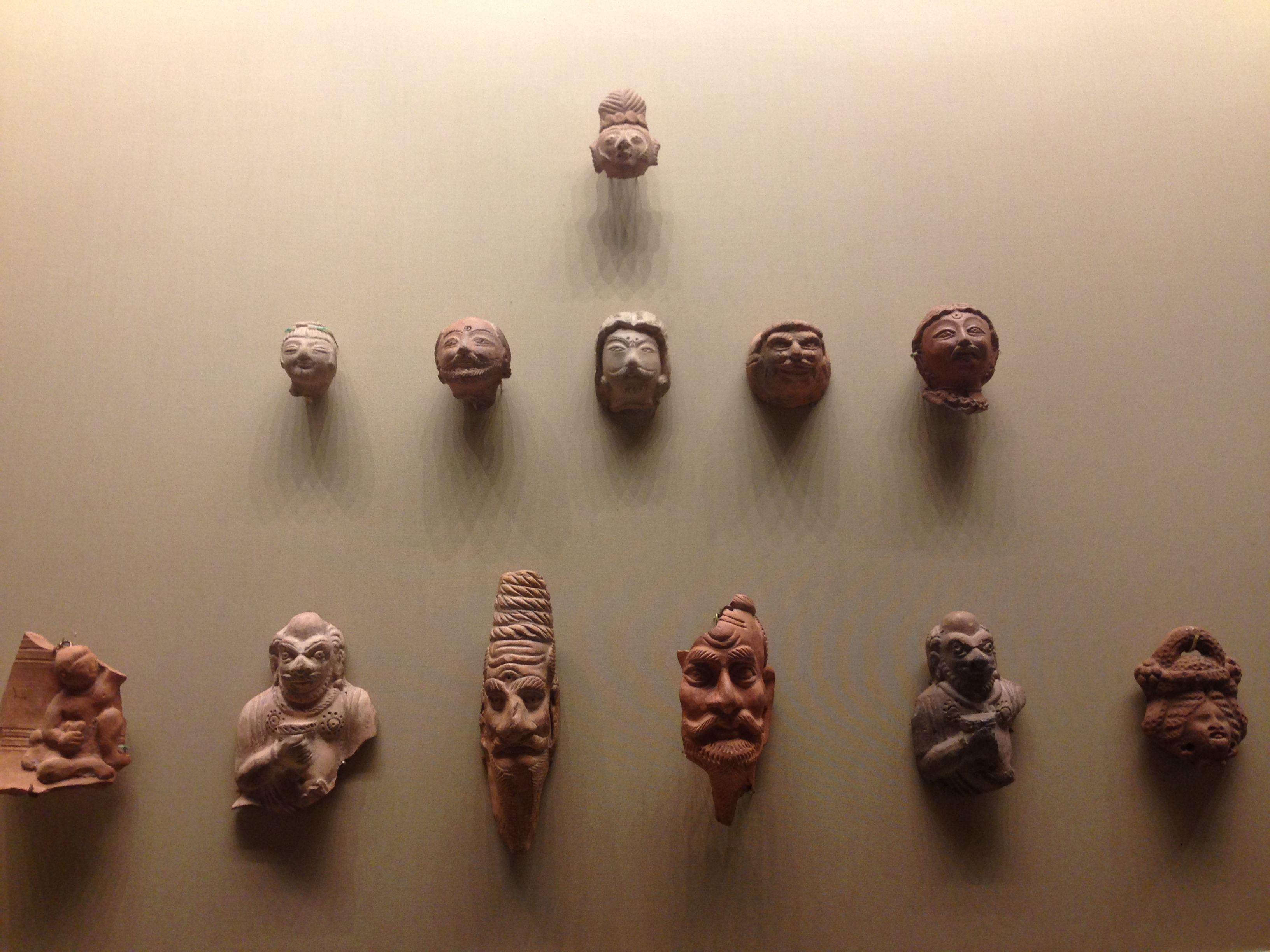 Clay figurines. Yotkan, Khotan, 2nd-4th century. Hermitage Museum, St. Petersburg